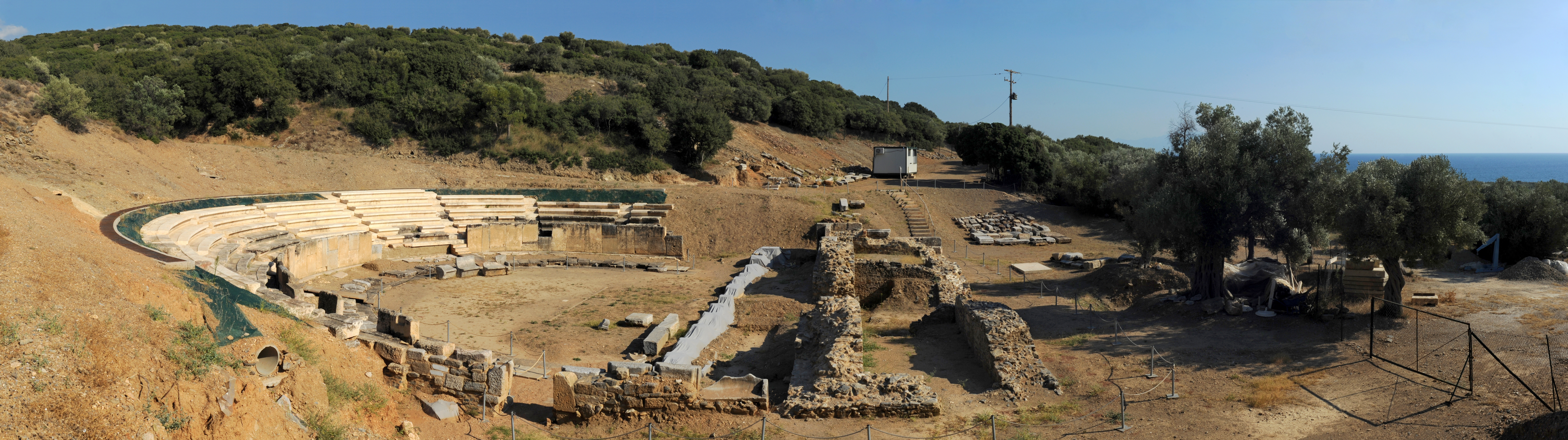 Panoramic image of ancient theater of Maronia, Rhodope, Thrace, Greece.